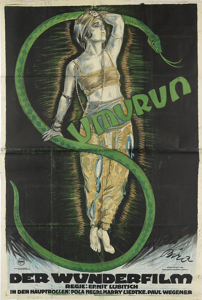 Ernst Lubitschs Sumurun. Filmplakat von Mihály Bíró. 73 1/2x49 1/4 inches, 186 3/4x125 cm. Gesellschaft für graphische Industrie, Vienna.